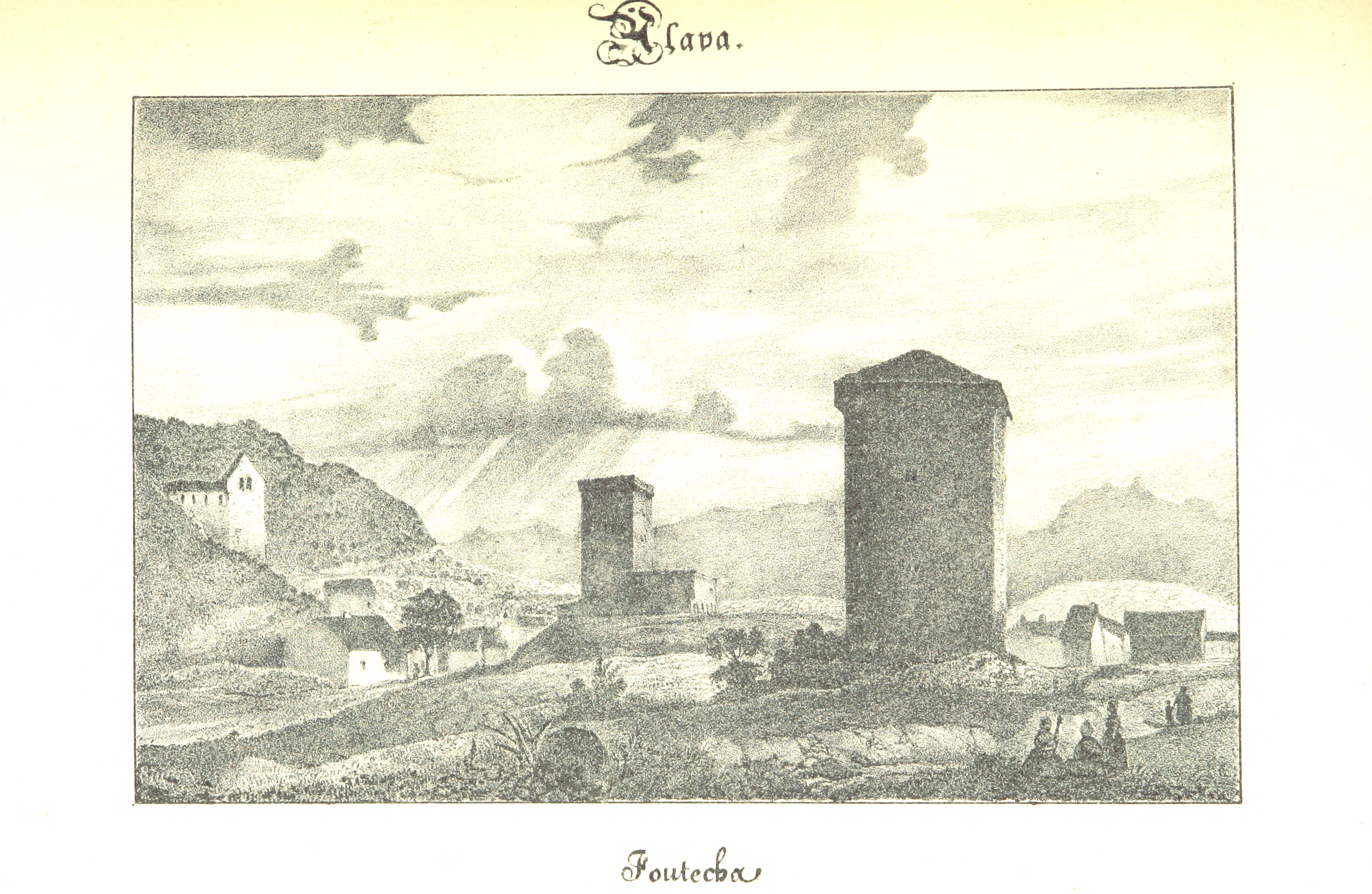 Image taken from: Title: "Revista pintoresca de las provincias Bascongadas. Edicion de lujo. Adornada con vistas ... por S. Lambla. Escrita por L. M. de E. y A. A. y H. Entrega 1-45" Author: E., L. M. de - and A. y H. (A.) Contributor: A. y H., A. Contributor: LAMBLA, Julio. Shelfmark: "British Library HMNTS 10161.f.16." Page: 433 Place of Publishing: Bilbao Date of Publishing: 1844 Issuance: monographic Identifier: 001024664 Explore: Find this item in the British Library catalogue, 'Explore'. Download the PDF for this book (volume: 0) Image found on book scan 433 (NB not necessarily a page number) Download the OCR-derived text for this volume: (plain text) or (json) Click here to see all the illustrations in this book and click here to browse other illustrations published in books in the same year. Order a higher quality version from here.